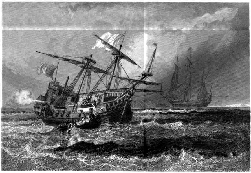 The ship Corbin being lost in Maldivia